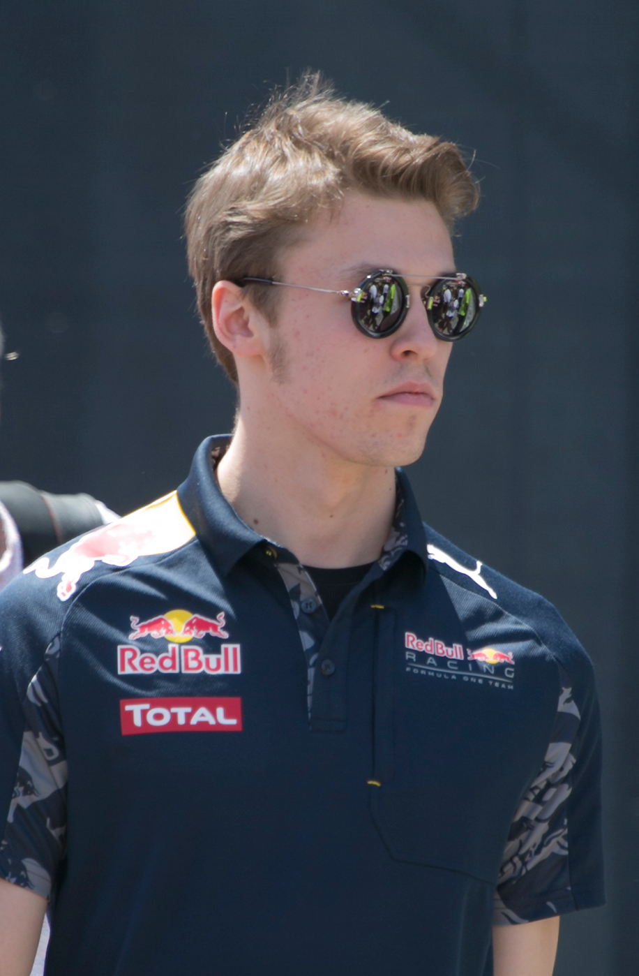 Daniil Kvyat at the 2016 Bahrain Grand Prix